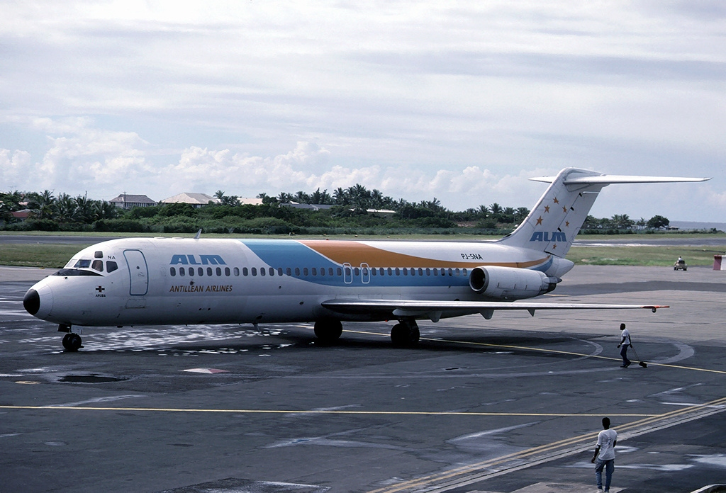 "Aruba"